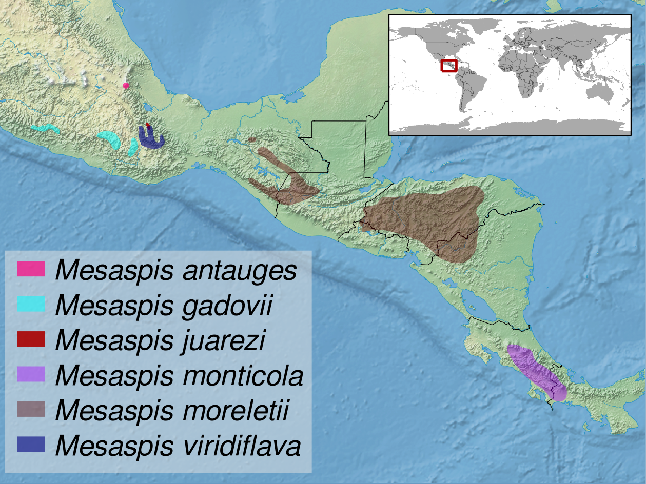 geographic distribution of the genus Mesaspis included species for RDB: Mesaspis antauges Mesaspis gadovii Mesaspis juarezi Mesaspis monticola Mesaspis moreletii Mesaspis viridiflava